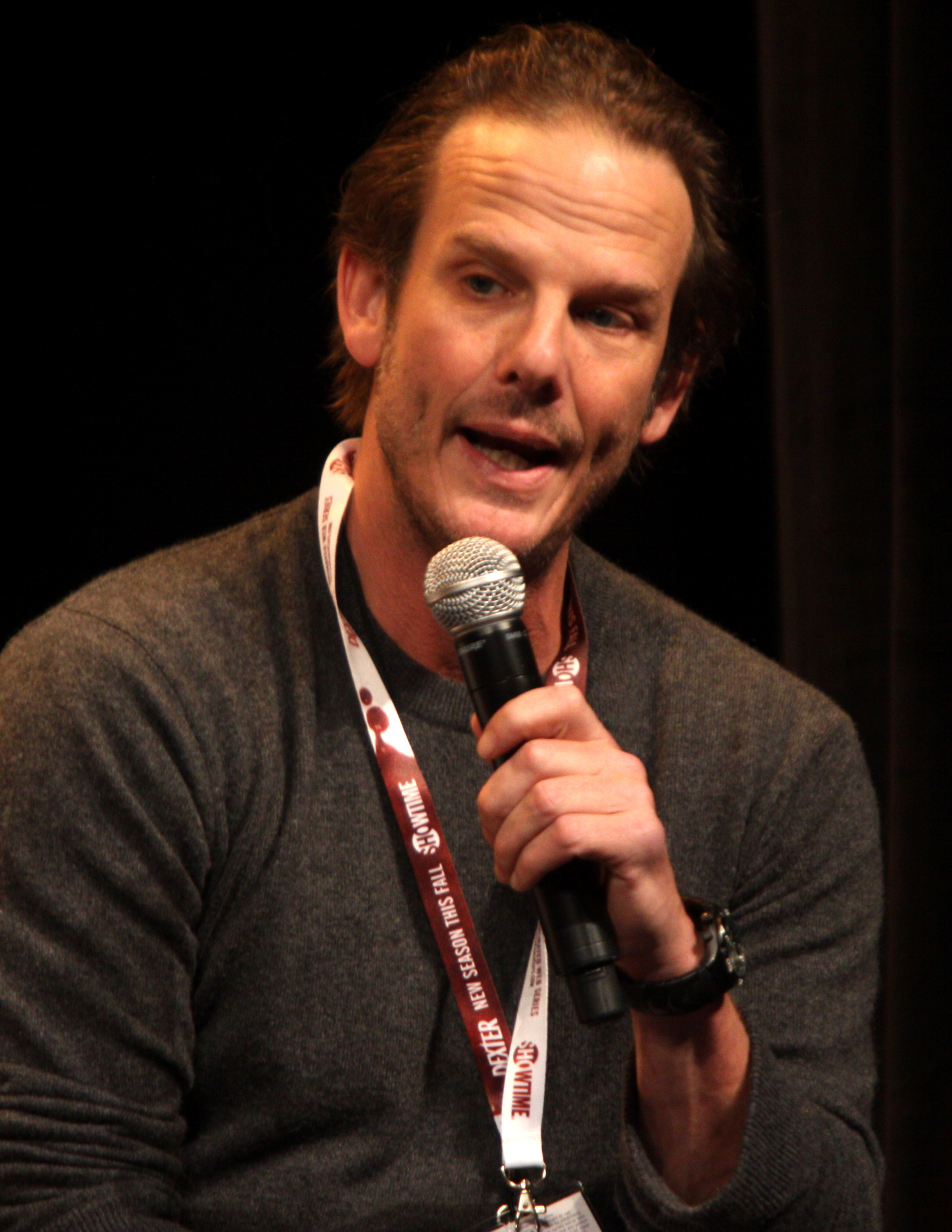 Peter Berg speaking at Wondercon 2012 in Anaheim, California on March 17, 2012.